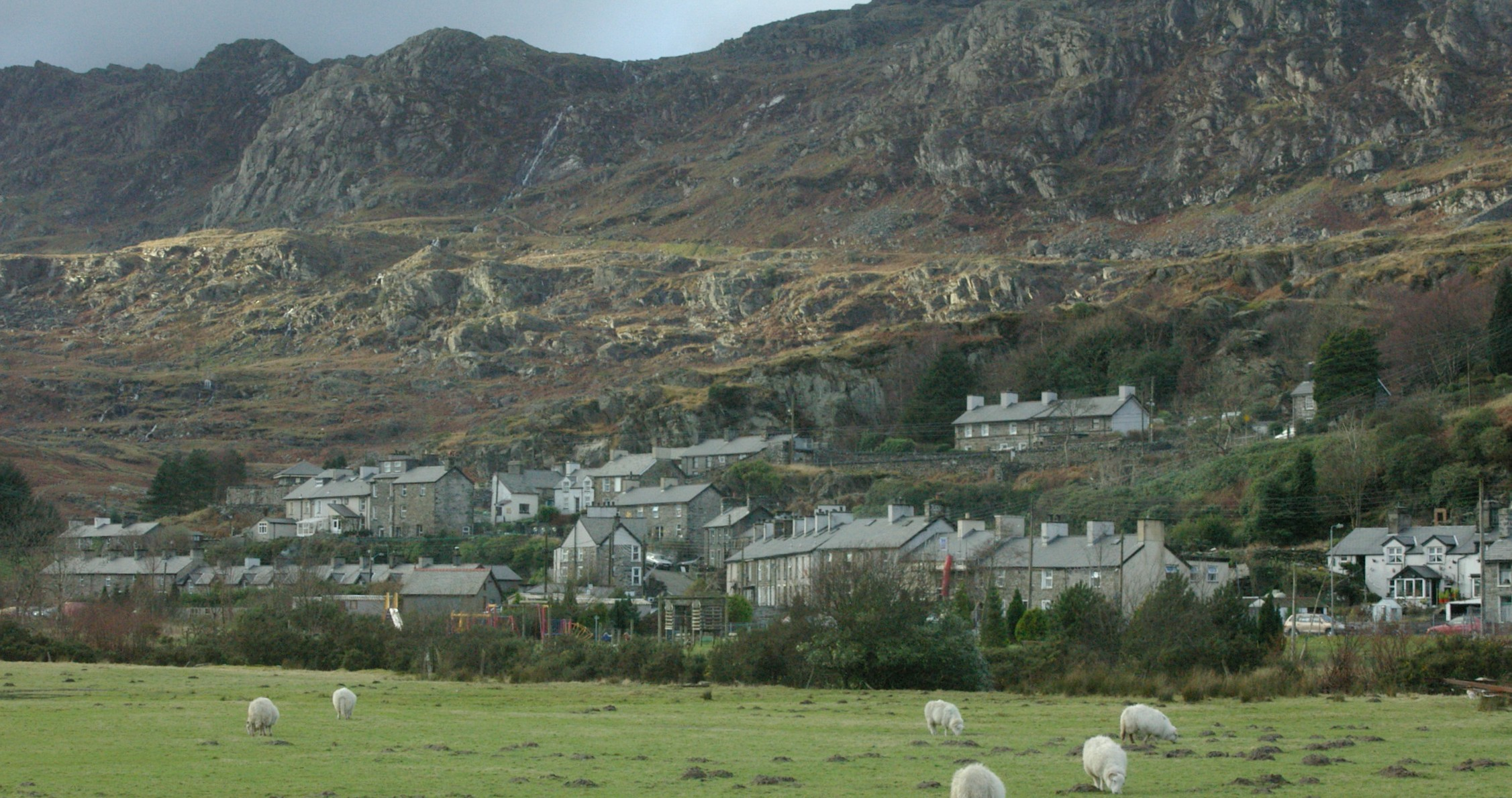 China Gwynedd, North Wales, with the Moelwyn range in the background. Digital photograph by myself, taken 31 December 2004. Ross Burgess 18:59, 27 Feb 2005 (UTC)